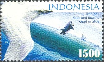 Stamps of Indonesia